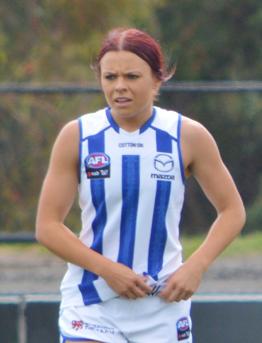 Jenna Bruton with North Melbourne during an AFLW practice match against Melbourne at Casey Fields in January 2019.